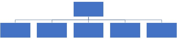 Flat organizational structure